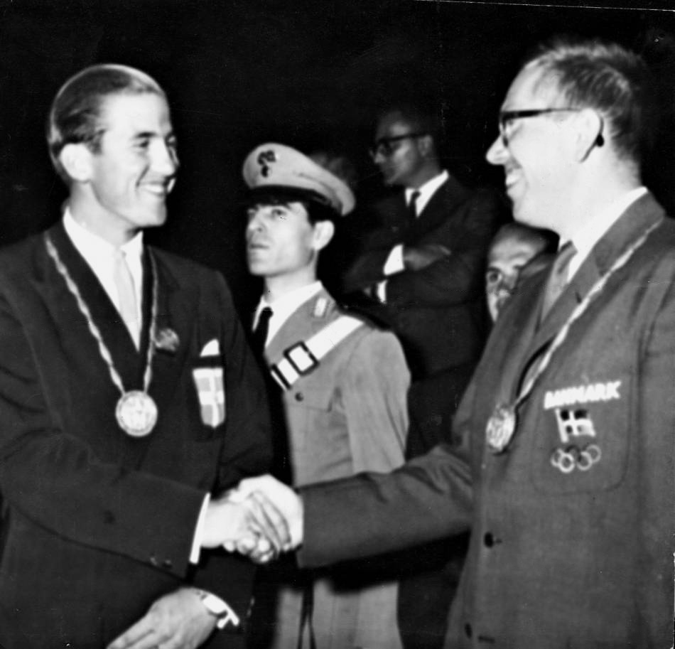 Constantine II of Greece (left) and Danish yachtsman Paul Elvstrøm at the Rome Olympics